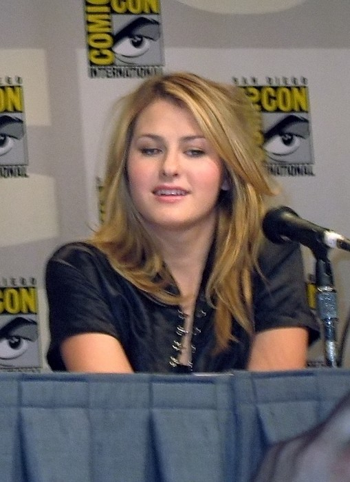 Scout Taylor-Compton attending the 2007 Comic-Con in San Diego, California to promote her remake of 'Halloween'.